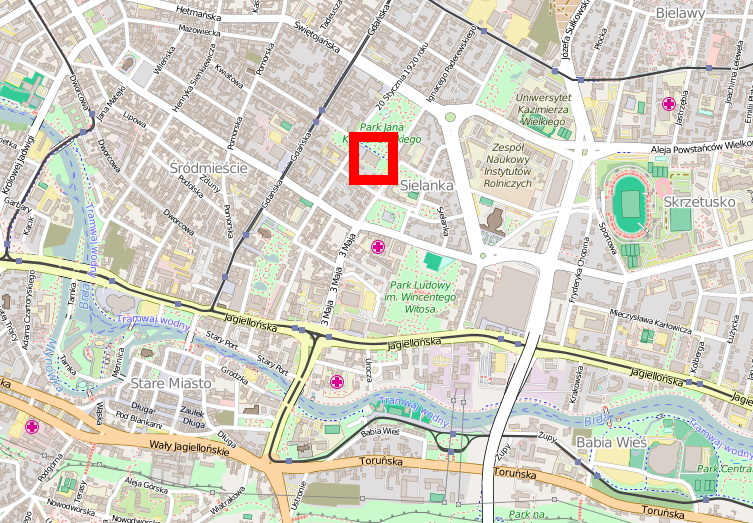 Location Filharmonia Bydgoszcz Map